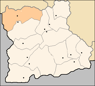 Map, Blagoevgrad Municipality Blagoevgrad Oblast, Bulgaria